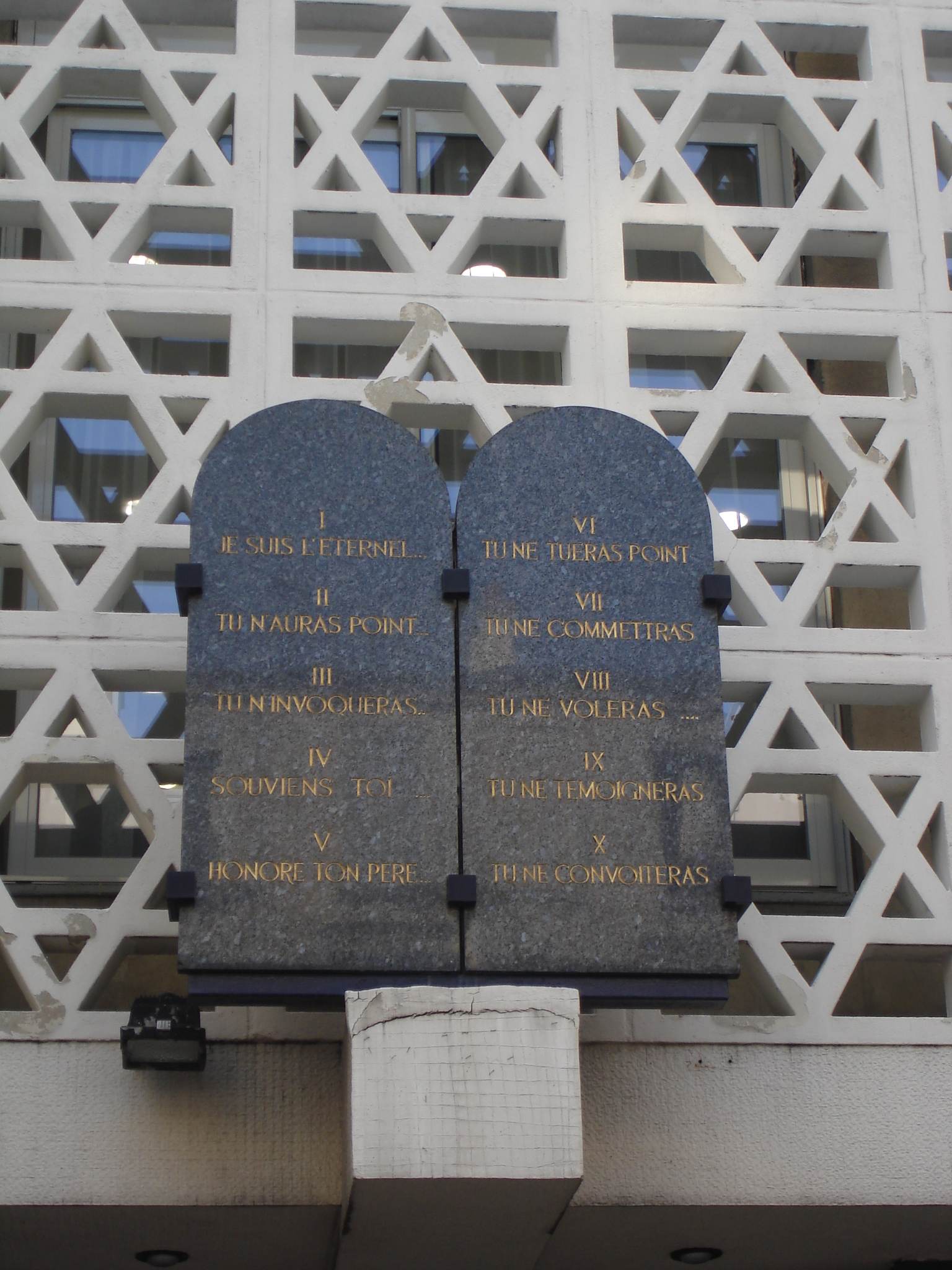 Ten commandments tablets on the synagogue Don Isaac Abravanel